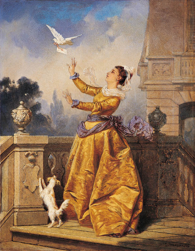 The messenger of love by Leonard Straszyński.